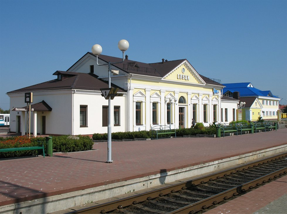 Railway station of Slutsk city, Minsk region, Belarus.